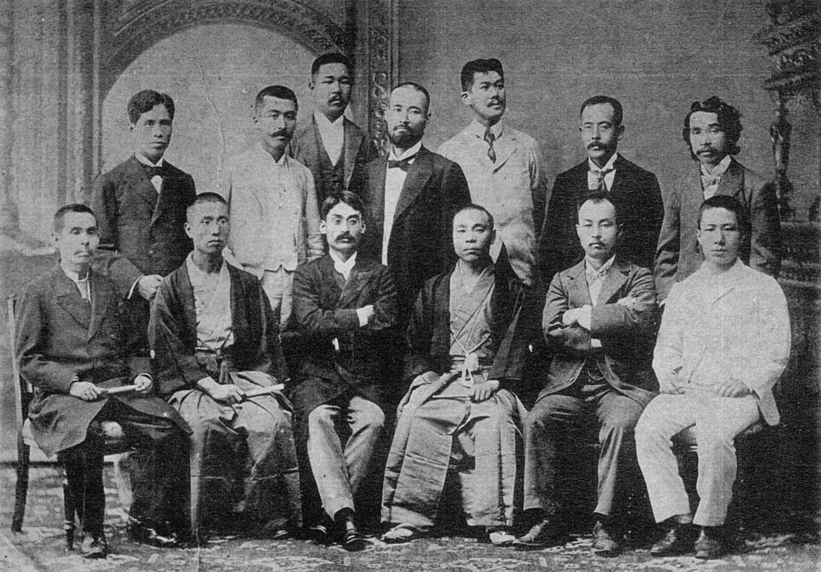 Kenjirō Fujii, taken in 25 June 1899. Back row (from left): Mr Tokuzō Nakajima, Mr. Masaharu Anesaki, Mr. Genyoku Kuwaki, Mr. Heizaburō Takashima, Mr. Kōzō Chiba, Mr. Tokio Yokoi, Mr. Kiichi Tanaka. Front row (from left): Mr. Kazutami Ukita, Dr. Kenjirō Fujii, Mr. Seichi Yoshida, Mr. Kenryū Yoshida, Mr. Nobuta Kishimoto, Mr. Naozō Matsuyama.